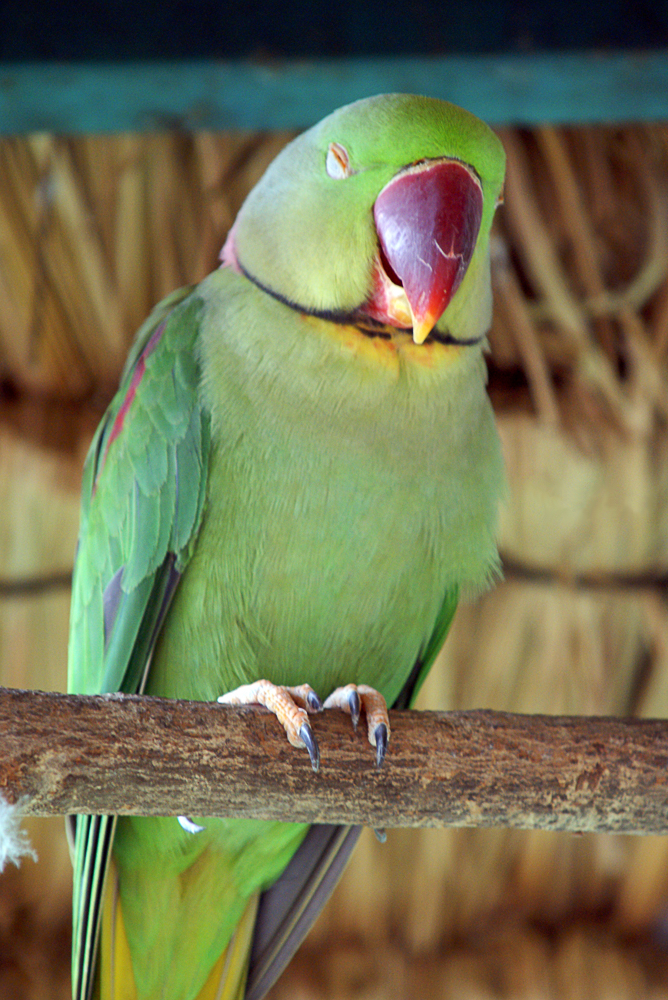 A male Alexandrine Parakeet at Kuala Lumpur Bird Park, Malaysia.